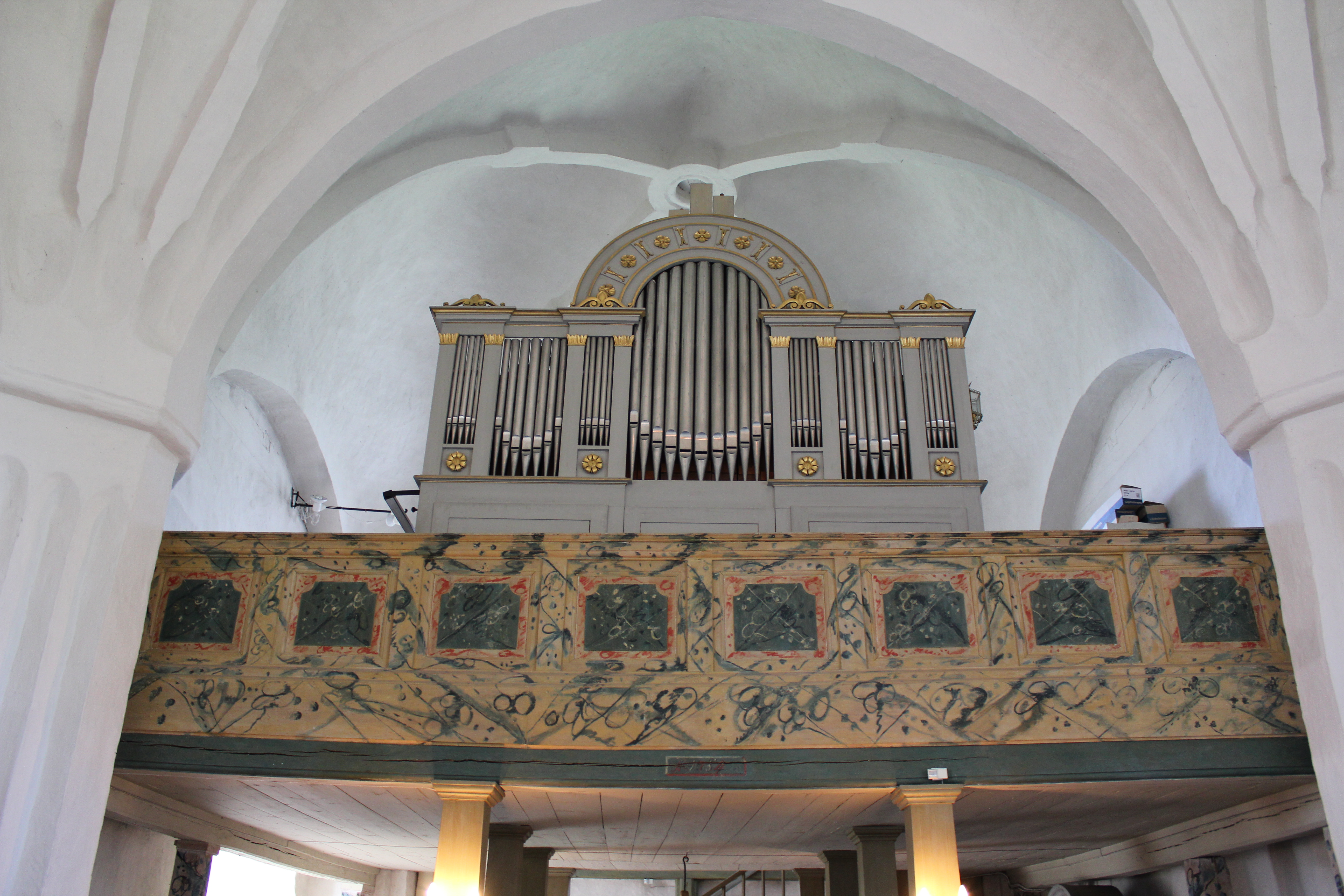 Organ, Boglösa kyrka, Enköping, Sweden.